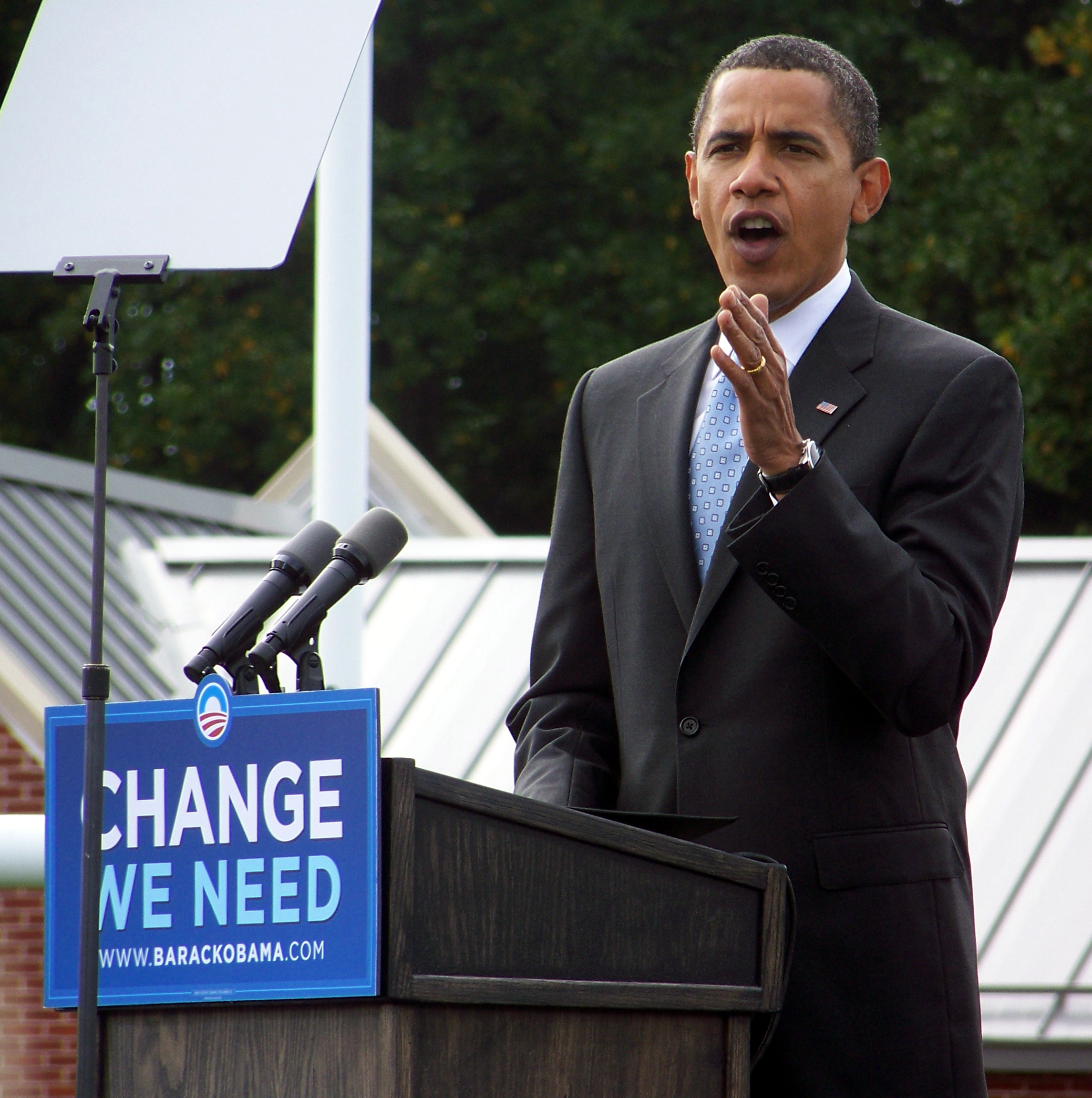 Barack Obama speaking at a campaign rally in Abington, PA